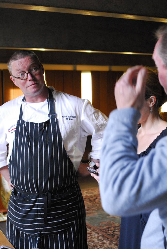 Oxford Symposium on Food & Cookery, 2009. Held at St Catherine's college. Fergus Henderson.